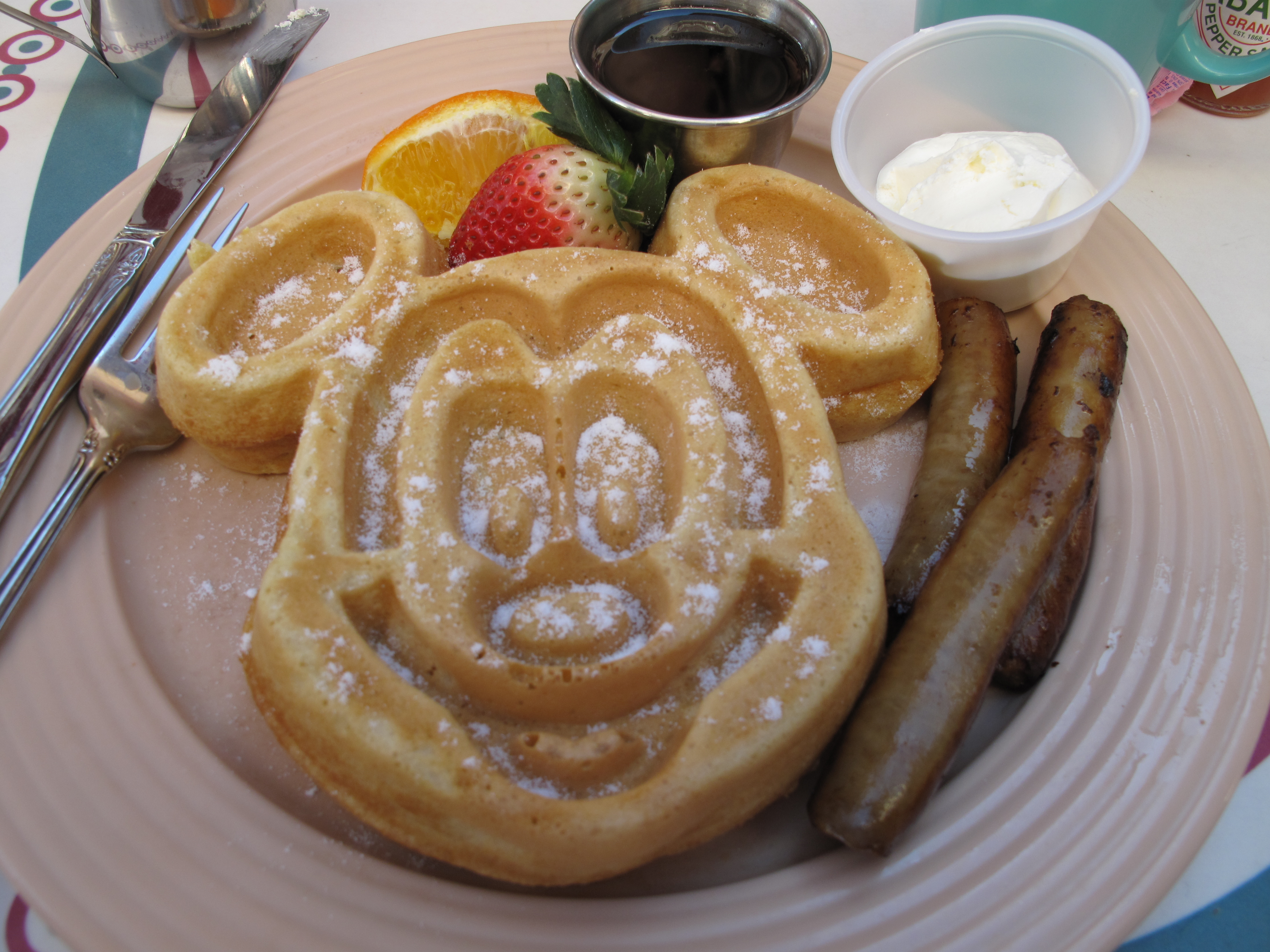 Mickey waffles for breakfast in Disneyland's restaurant